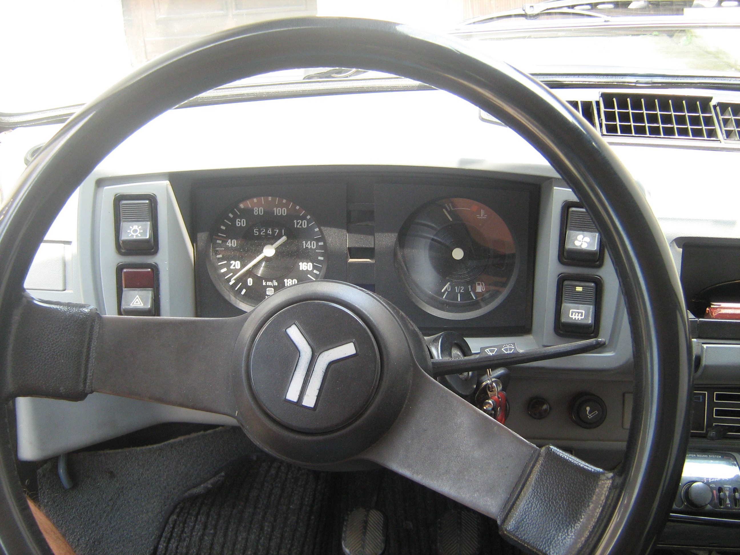 Yugo Skala 55, year of production 1991. Bought new by my father and remained in his ownership for 17 years. Odometer showed only 130,000km when it was sold in late 2008 for 1,200 euros. I grew up with this car, and I would like to own it myself someday.